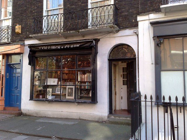 Black Books... Collinge and Clark bookshop in Leigh Street, Bloomsbury - used for the external shots for the shop in the Channel 4 comedy Black Books (starring Dylan Moran, Bill Bailey, and Tamsin Greig).